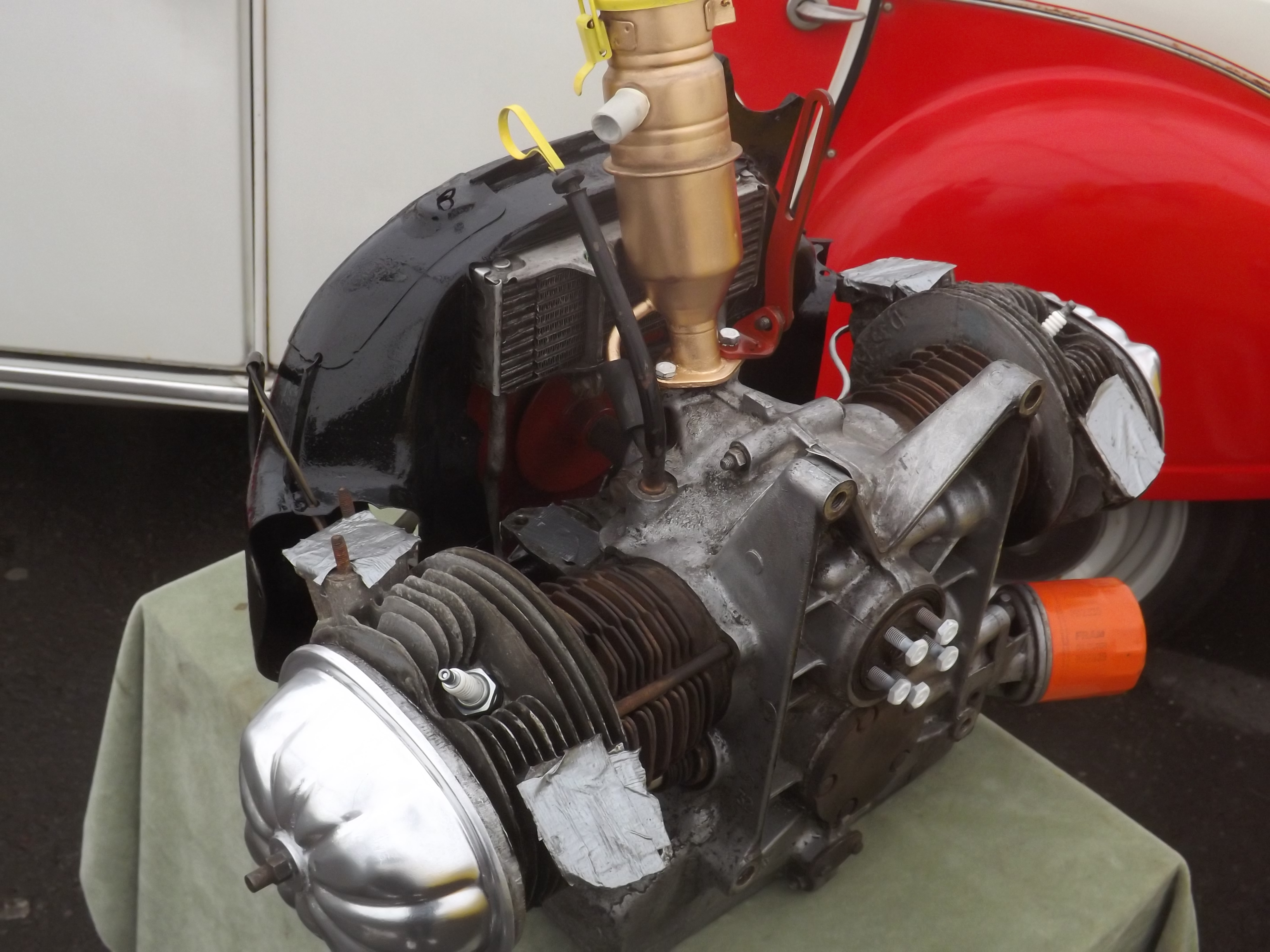 Bristol Classic Car Show, Royal Bath & West Showground, 13th June 2015